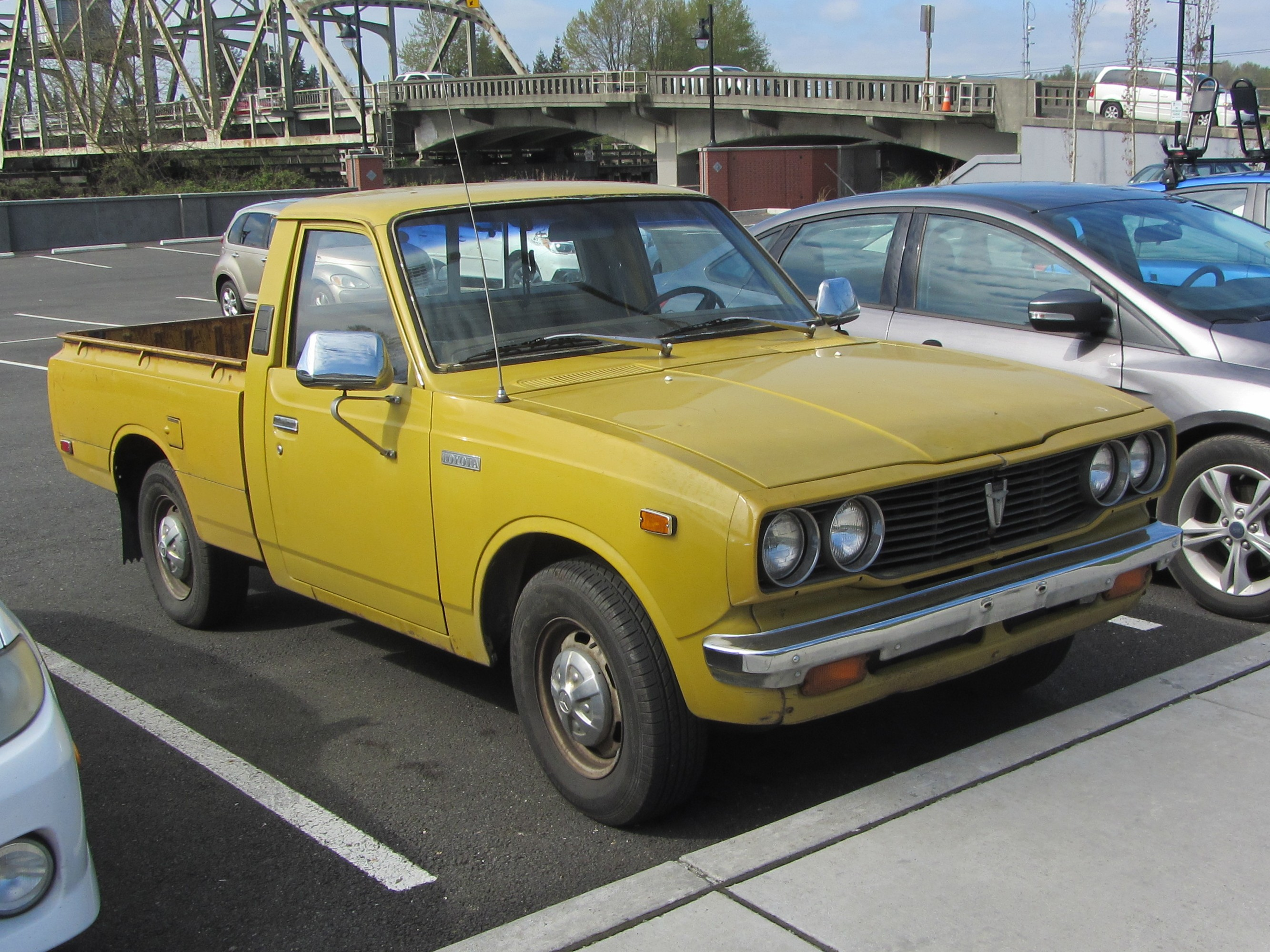 Toyota HiLux